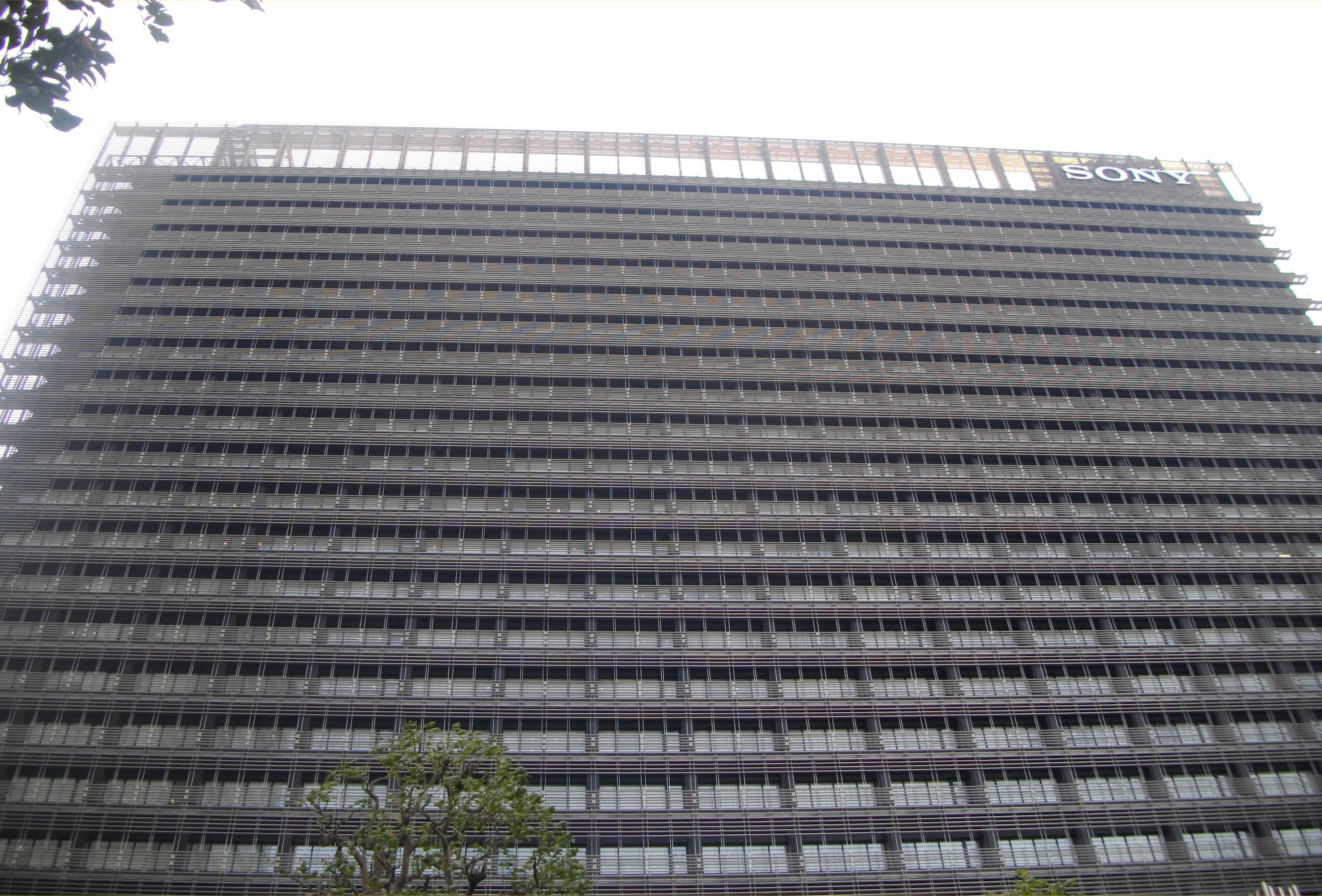 A photo of NBF Osaki Building(former SONY City Osaki)Osaki,Shinagawa-ku,Tokyo,Japan.